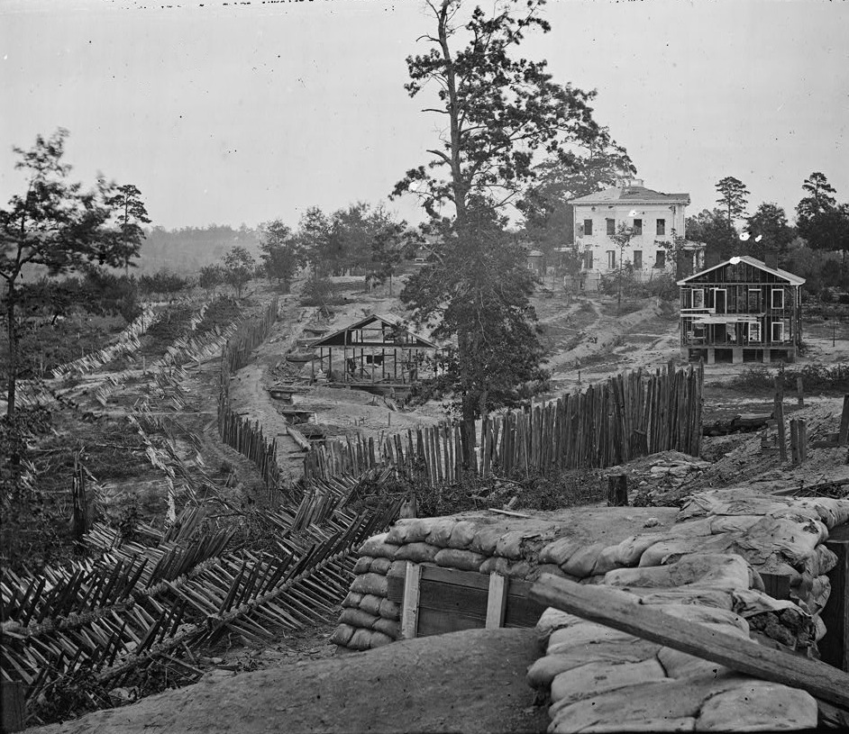 Palisades and chevaux-de-frise near the Ponder House This is a retouched picture, which means that it has been digitally altered from its original version.